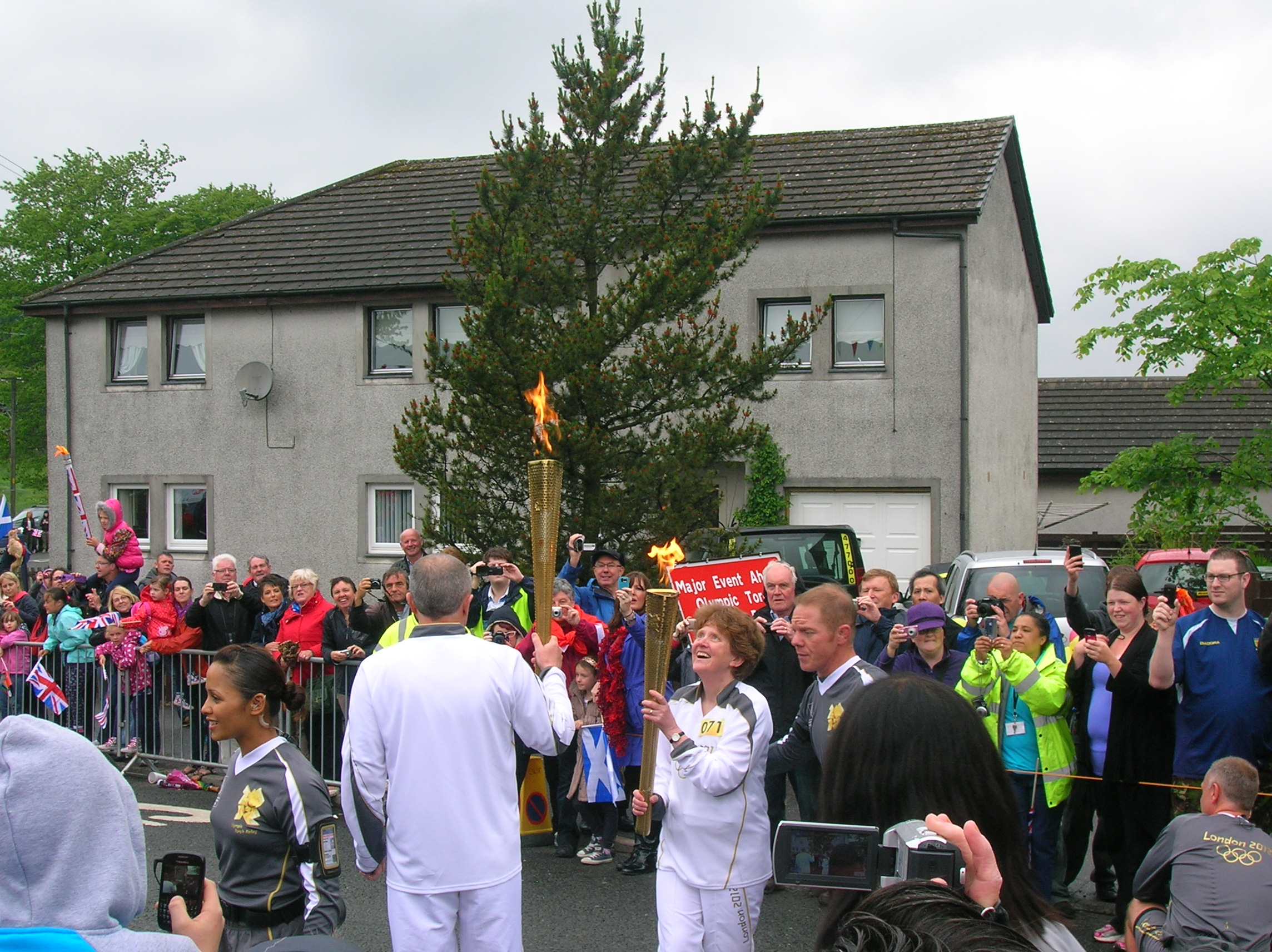 The Olympic Torch handover at Barrmill, North Ayrshire, Scotland